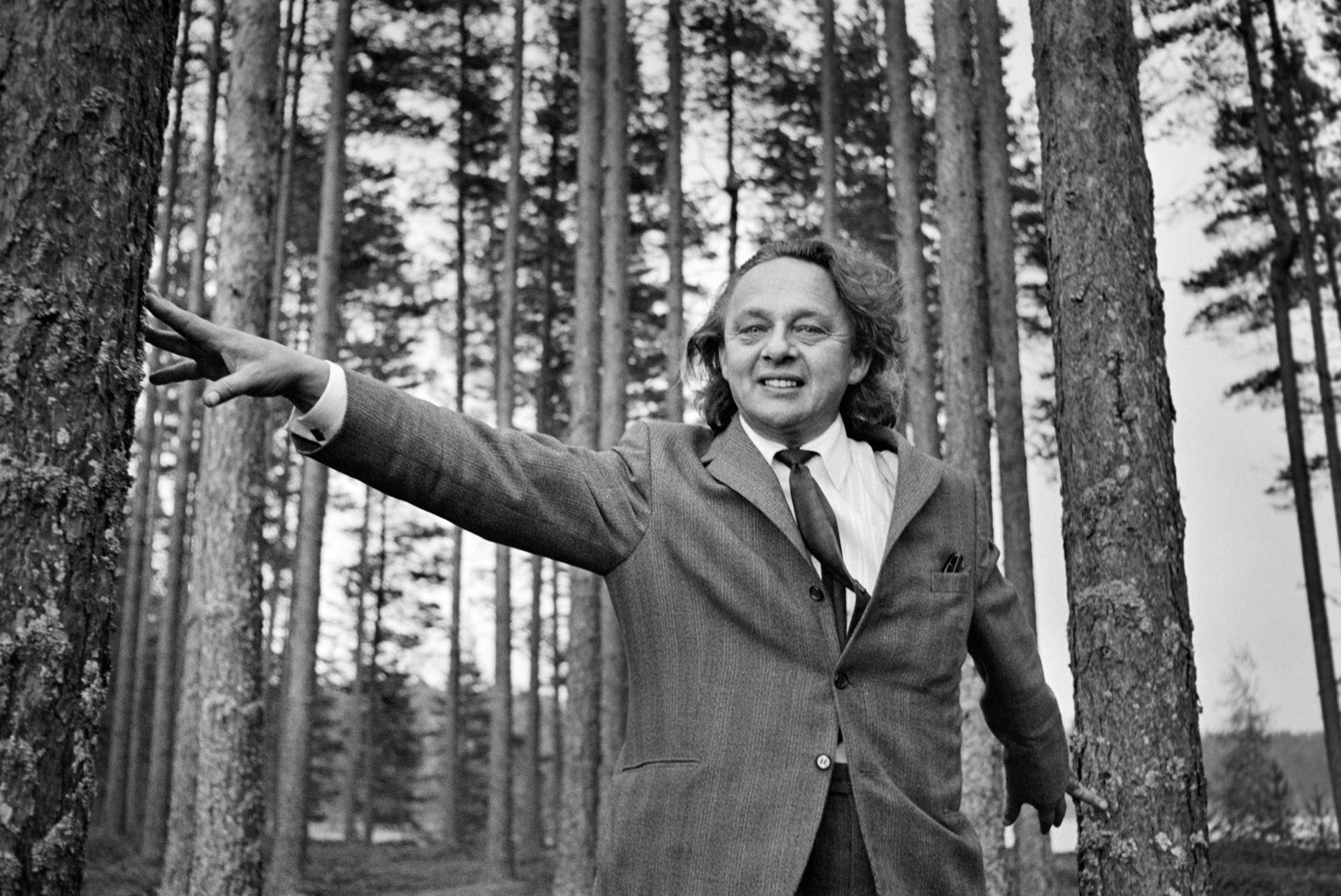 Photograph of the Finnish entrepreneur Kalevi Keihänen in Kihniö.